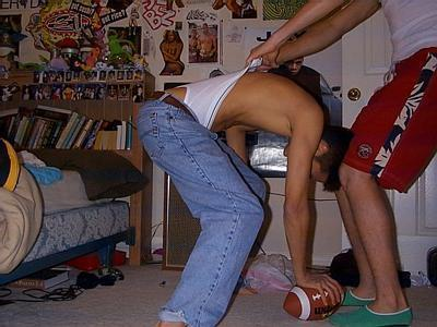 a wedgie